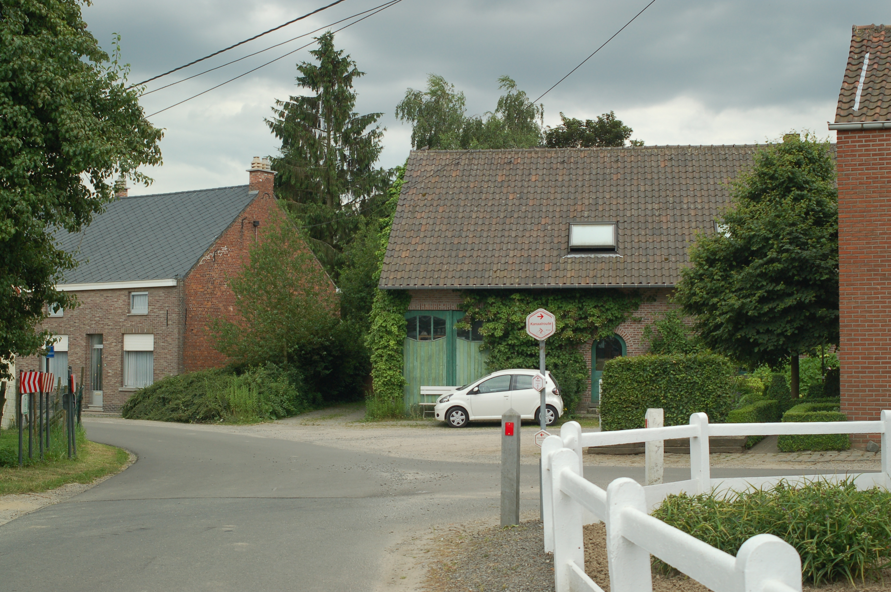 Junction of Wormelaer